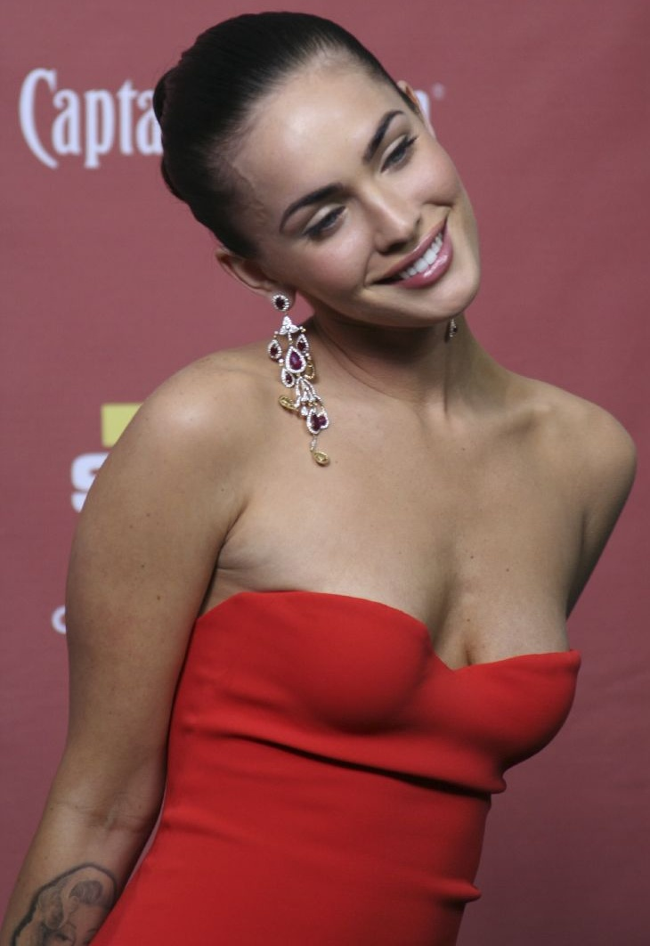 This is a picture of Megan Fox during the 2007 Spike TV Scream Awards.